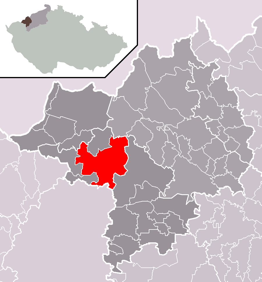 Location of Klášterec nad Ohří town within Chomutov District and administrative area of Kadaň as a Municipality with Extended Competence.